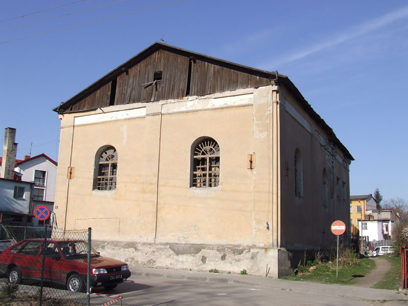 Synagogue in Bychawa